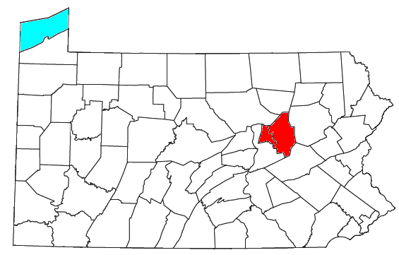 Locator map of the Bloomsburg-Berwick Micropolitan Statistical Area in the central part of the U.S. state of Pennsylvania.